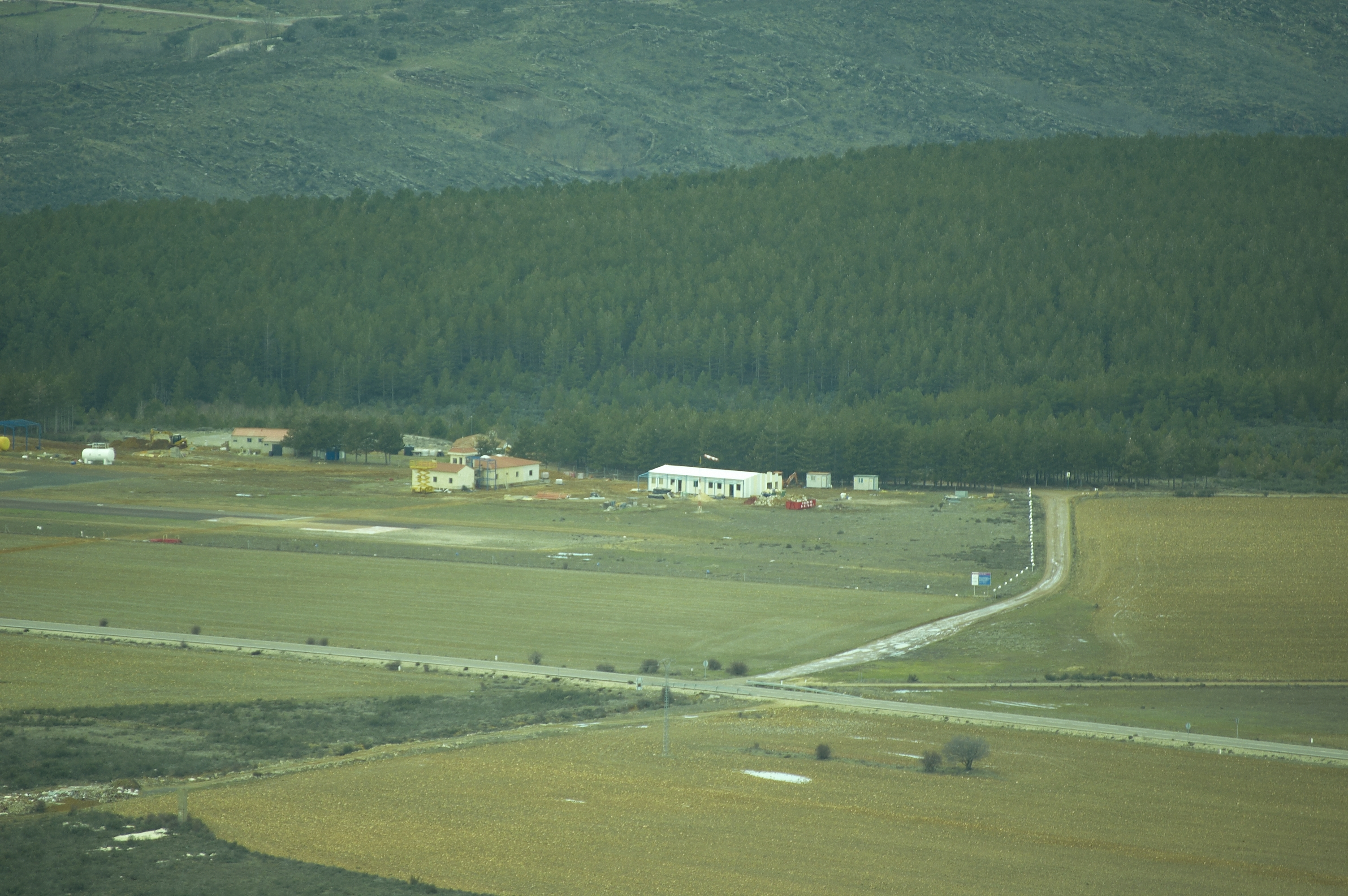 Hiendelaencina-Alto Rey landing field (Guadajara, Castile-La Mancha, Spain.